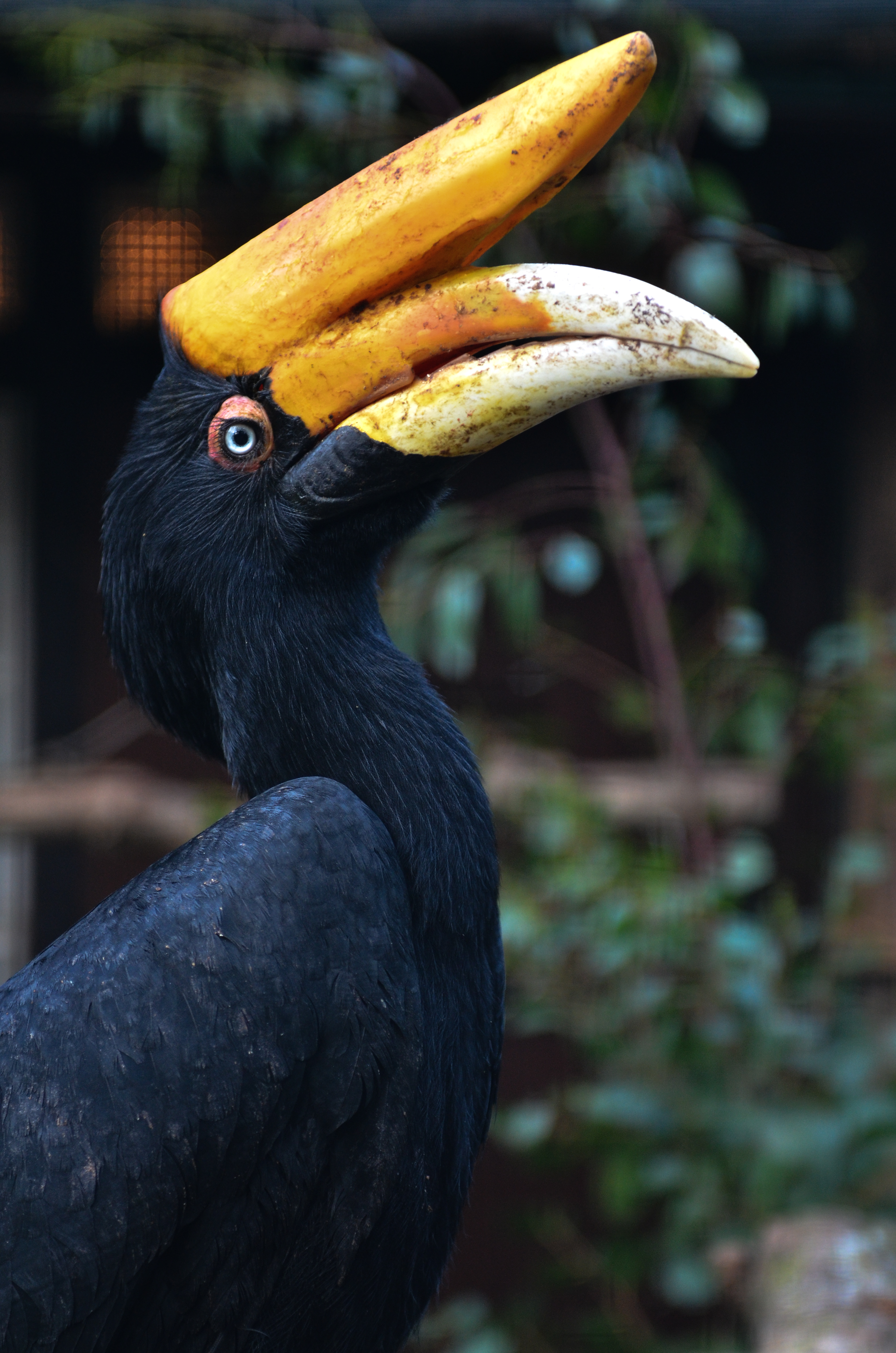 Rhinoceros Hornbill (Buceros rhinoceros silvestris) at Weltvogelpark Walsrode (Walsrode Bird Park, Germany)